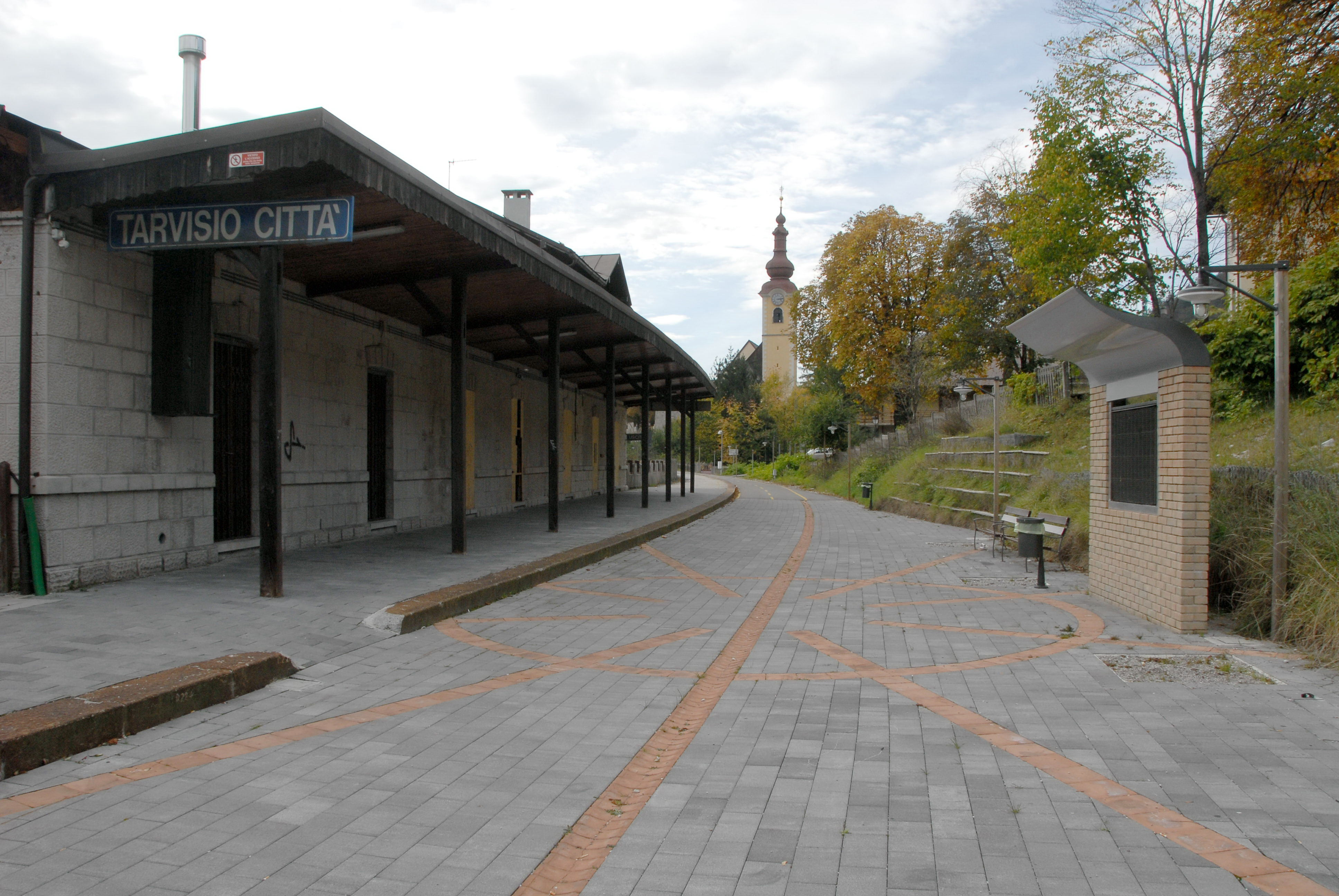 Bicycle road on the defunct railroad track in the city of Tarvisio, region Friuli Venezia-Giulia, Italy